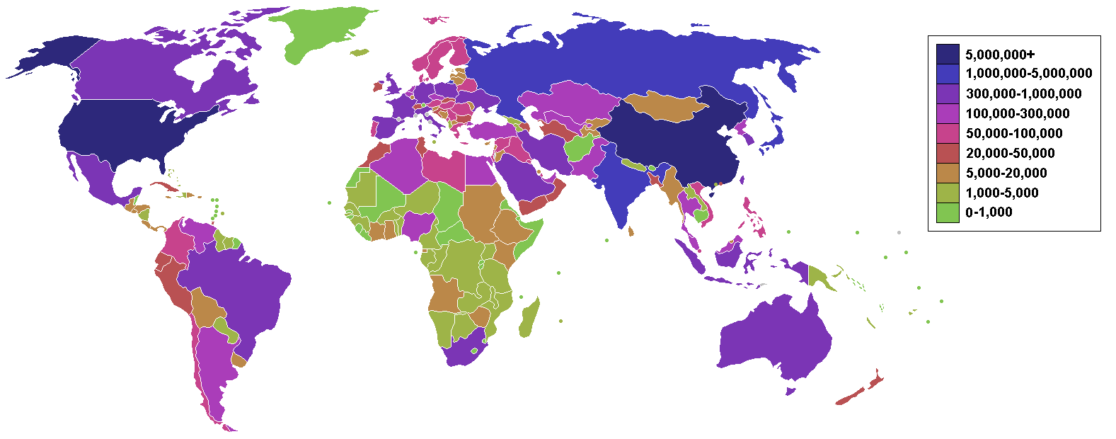 A colour version of previous map, ranking countries by carbon dioxide emissions in thousands of metric tonnes per annum, based on List of countries by carbon dioxide emissions as of March 2006.